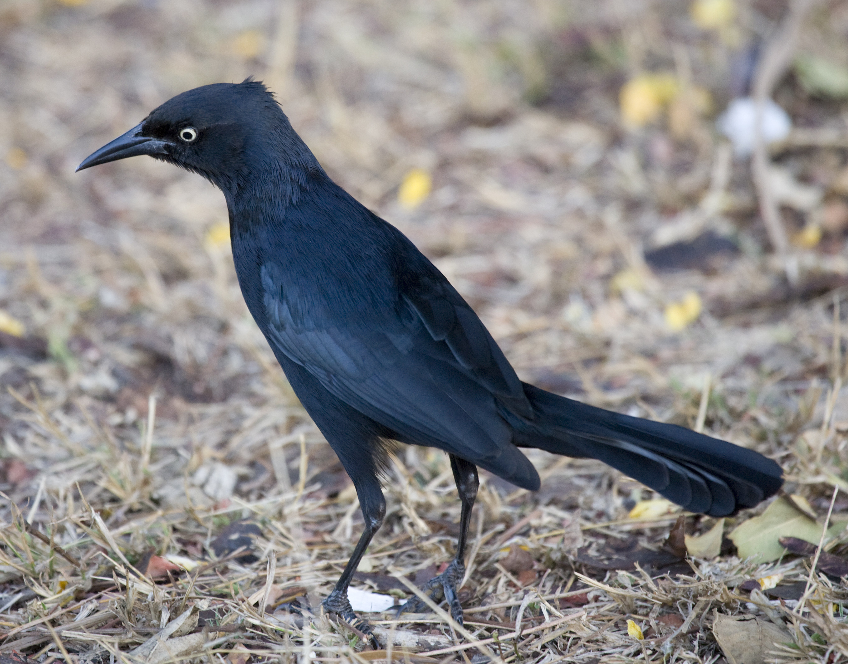 A Greater Antillean Grackle in Ciego de Avila Province, Cuba.